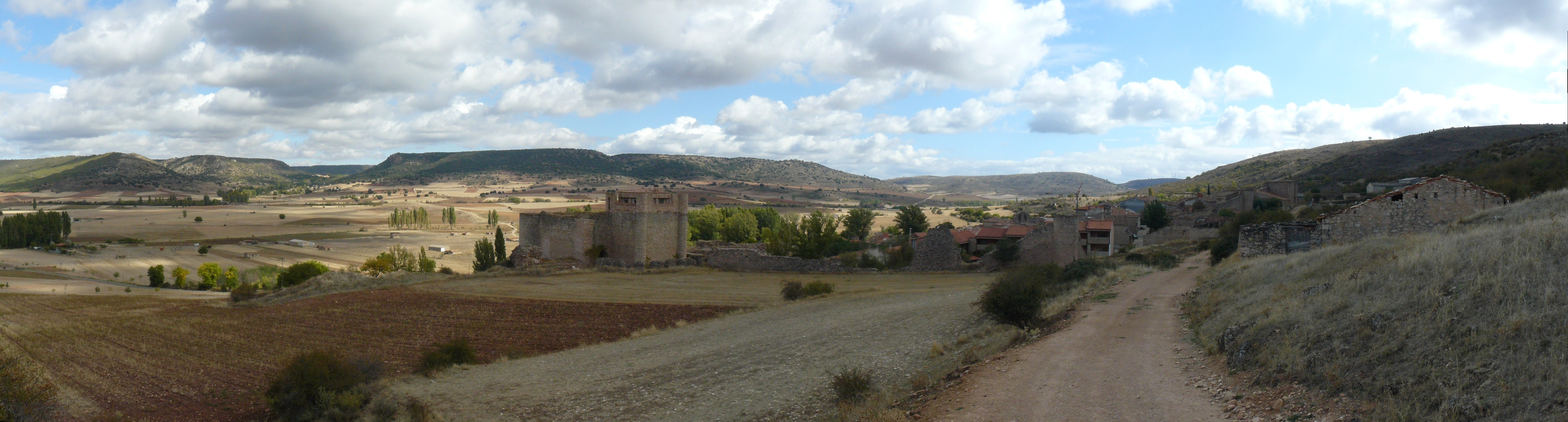 View of Palazuelos (Guadalajara, Spain) from the path to Carabias.